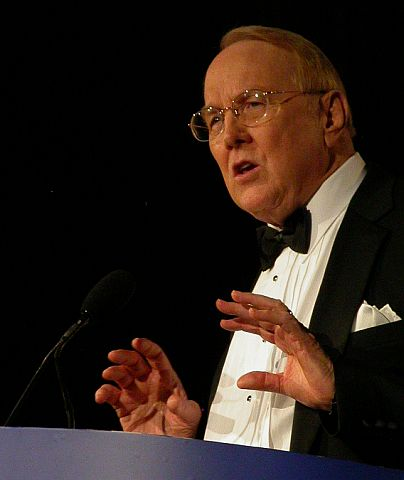 James Dobson in 2007 in Washington, DC at the Values Voters conference